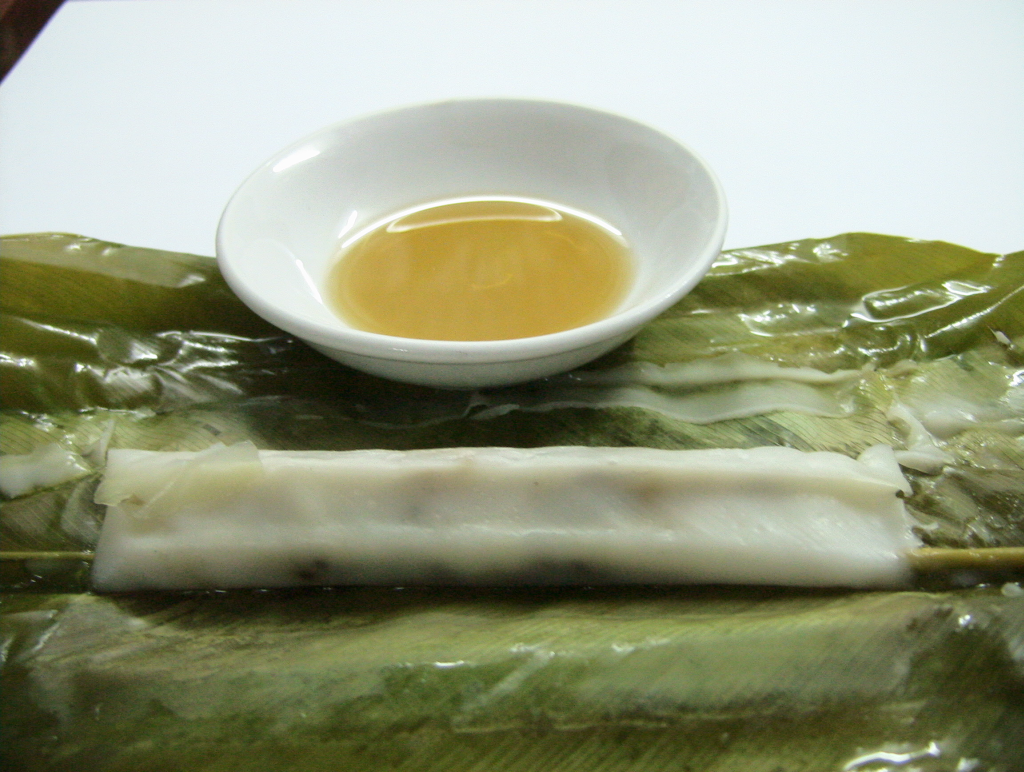 An unwrapped bánh tẻ (Mỹ Đức, Hà Tây) and a small dish of nước mắm (fish sauce).